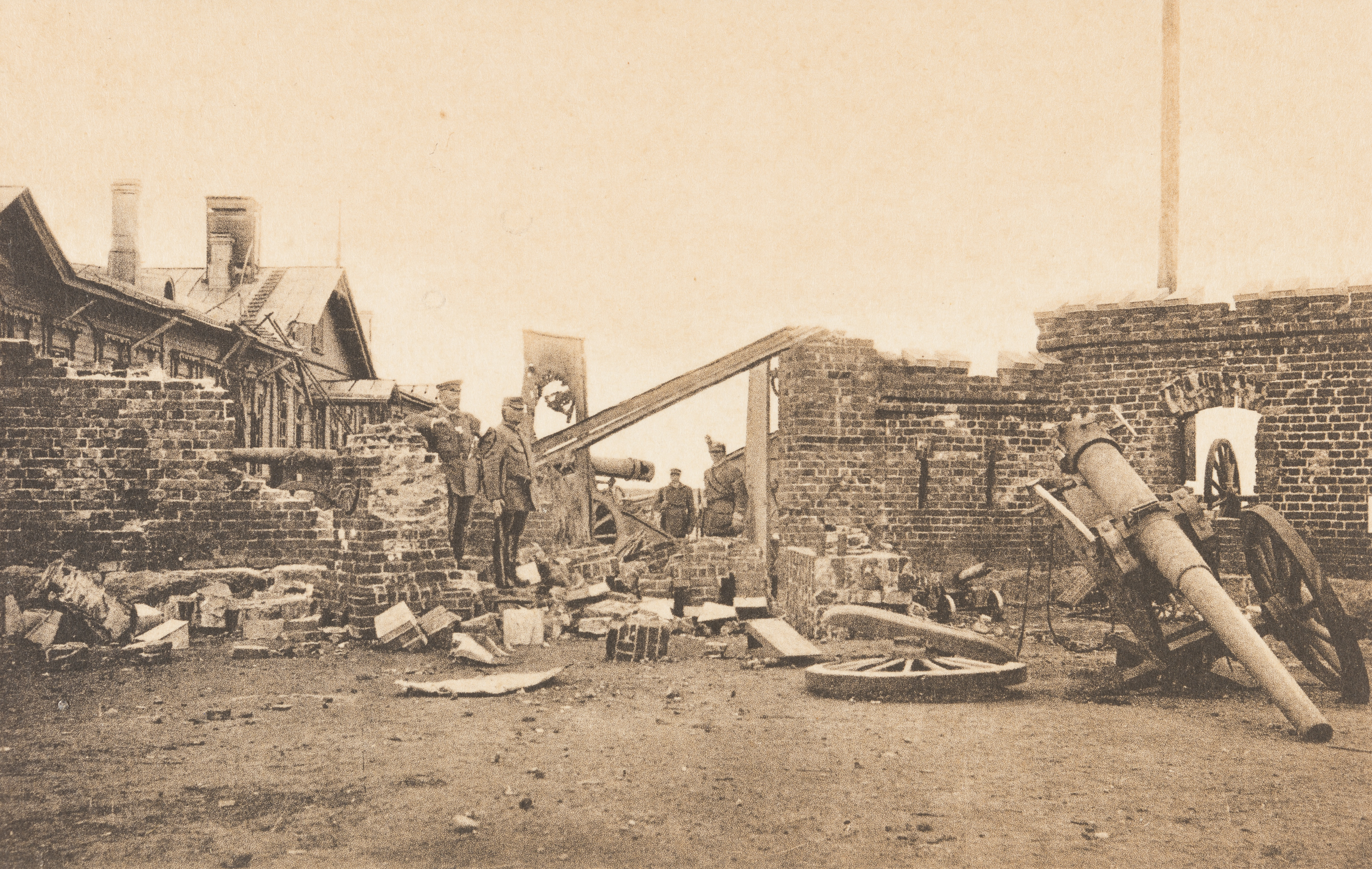 1918 Finnish Civil War: Patterinmäki artillery fort after the Battle of Vyborg.